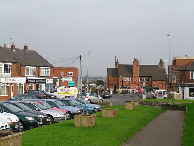 "The Triangle" The concrete planters in the foreground once adorned the central reservation of Charles Street, a main street in Leicester. Known as "Beckett's Buckets" after a former Leicester City Engineer, they were salvaged and re-cycled to Birstall.